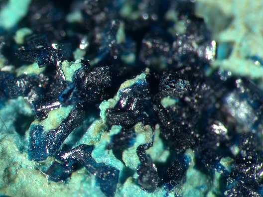 Clinoclase, Cornwallite, Strashimirite (Size: 4.5 x 2.9 x 1.1 cm) Locality: Horný Bartolomej Mine, Novoveská Huta, Spišská Nová Ves Mining District, Eastern Slovenské Rudohorie Mts, Košice Region, Slovakia (Locality at ) A classic Clinoclase specimen from the famous Horný Bartolomej Mine. This old mine is now closed, but in its day produced some very attractive secondary copper minerals, which can still be collected along the dumps I'm told. The specimen hosts beautiful deep blue, sparkling crystal aggregates of Clinoclase with Cornwallite and Strashimirite on matrix. A great reference specimen of this well-known material from Slovakia. Ex. Brian Kosnar Collection.